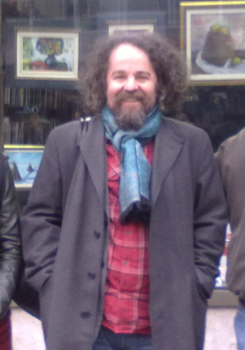 Belgrade, december 2011